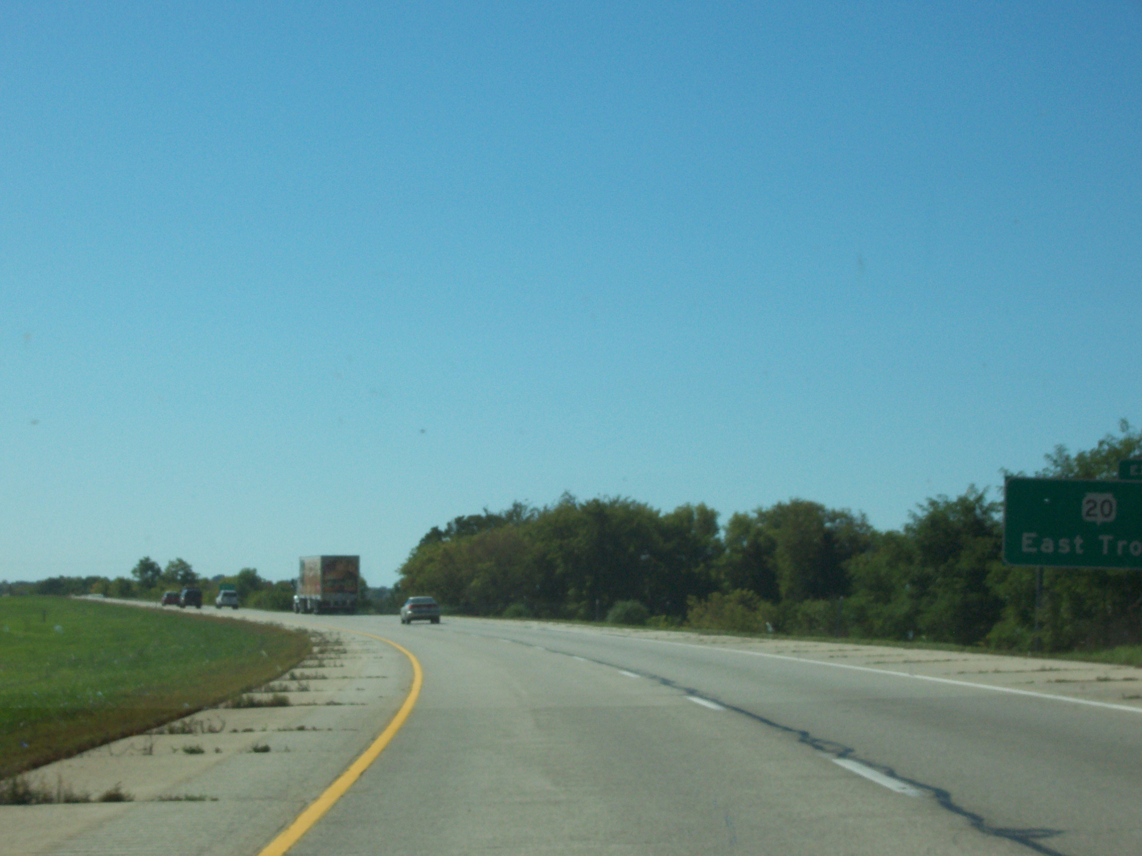 Looking southeast on Interstate 43 at the Highway 20 exit in East Troy, Wisconsin.